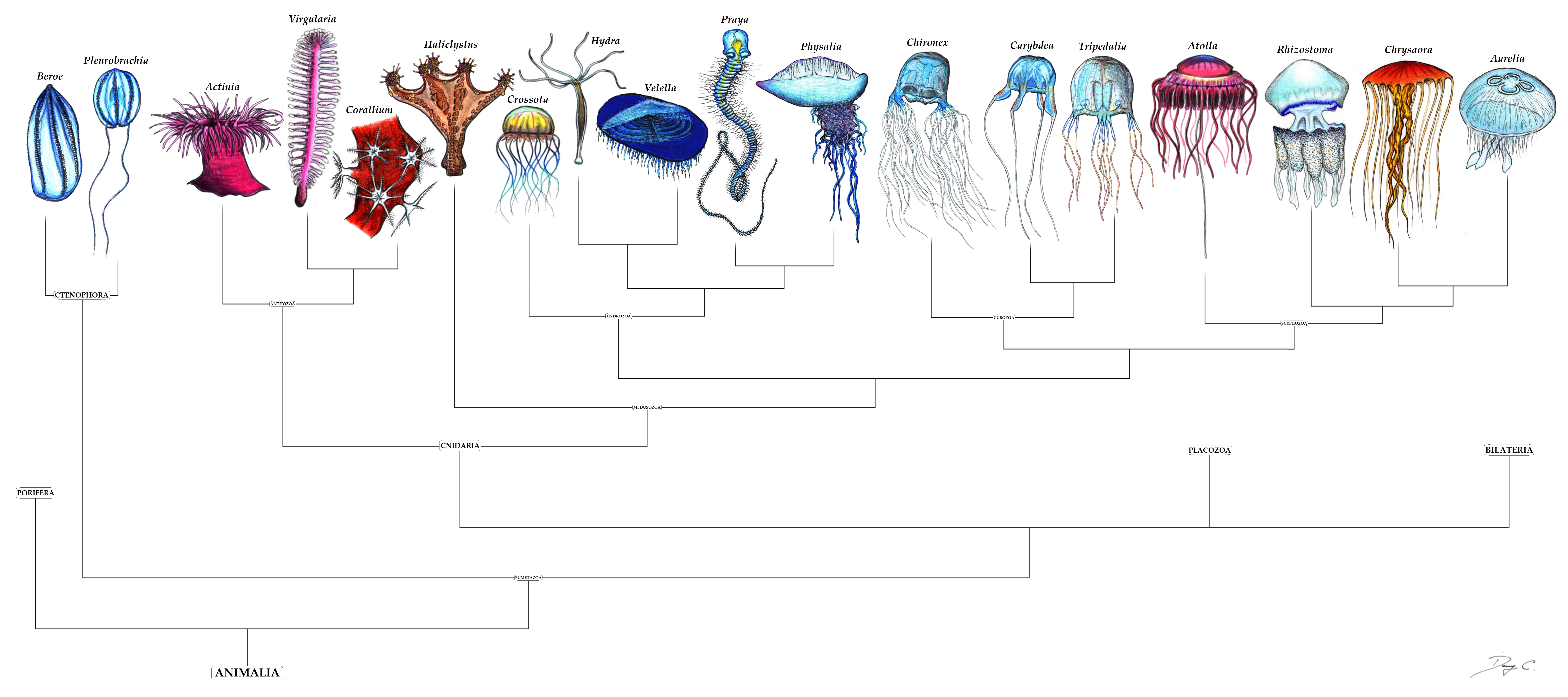 Diversity of radiate animals